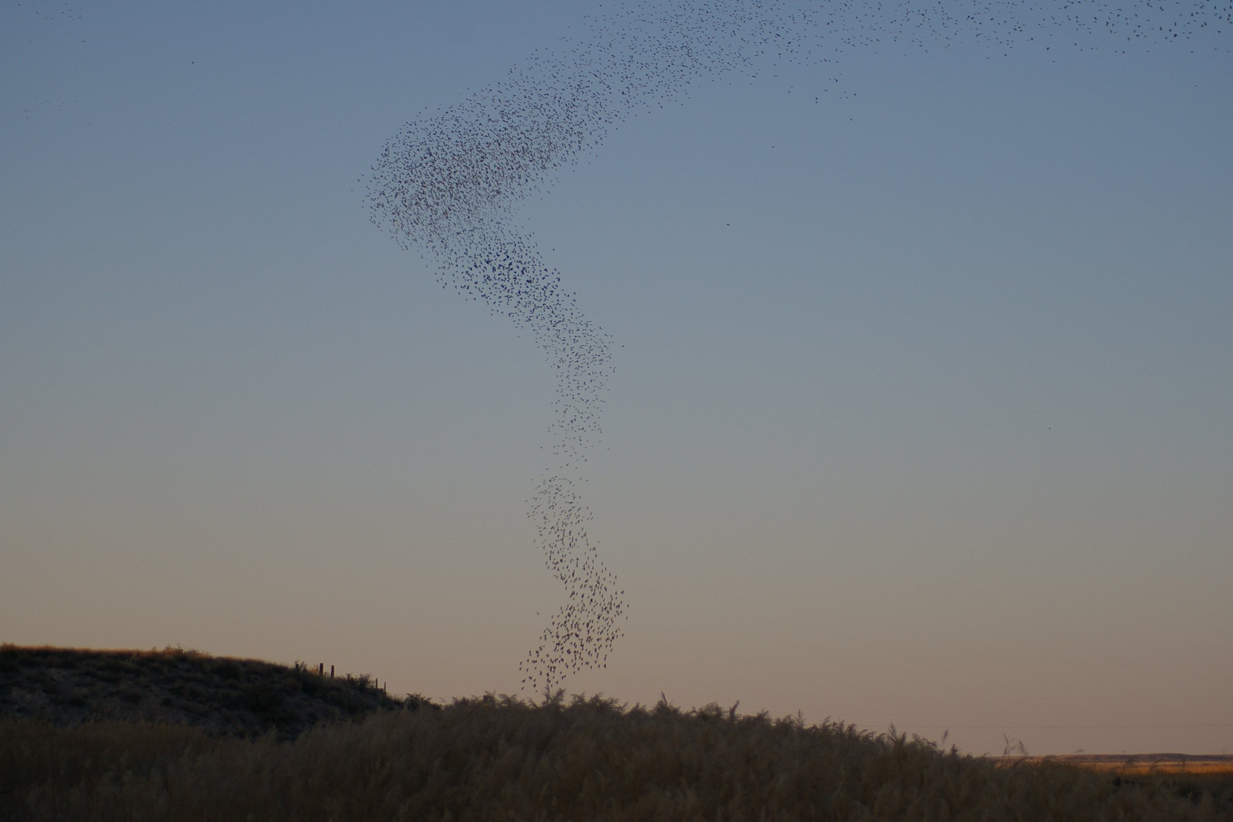 A swarm of birds in the summer evening at Bitter Lake National Wildlife Refuge, near Roswell, NM, USA.